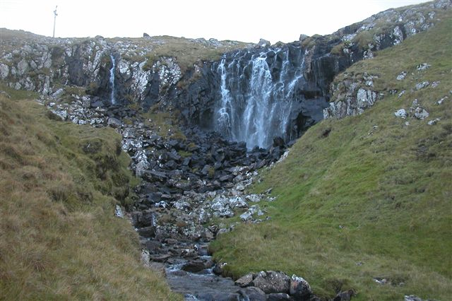 Waterfalls: Foldarafossur, west of Hov